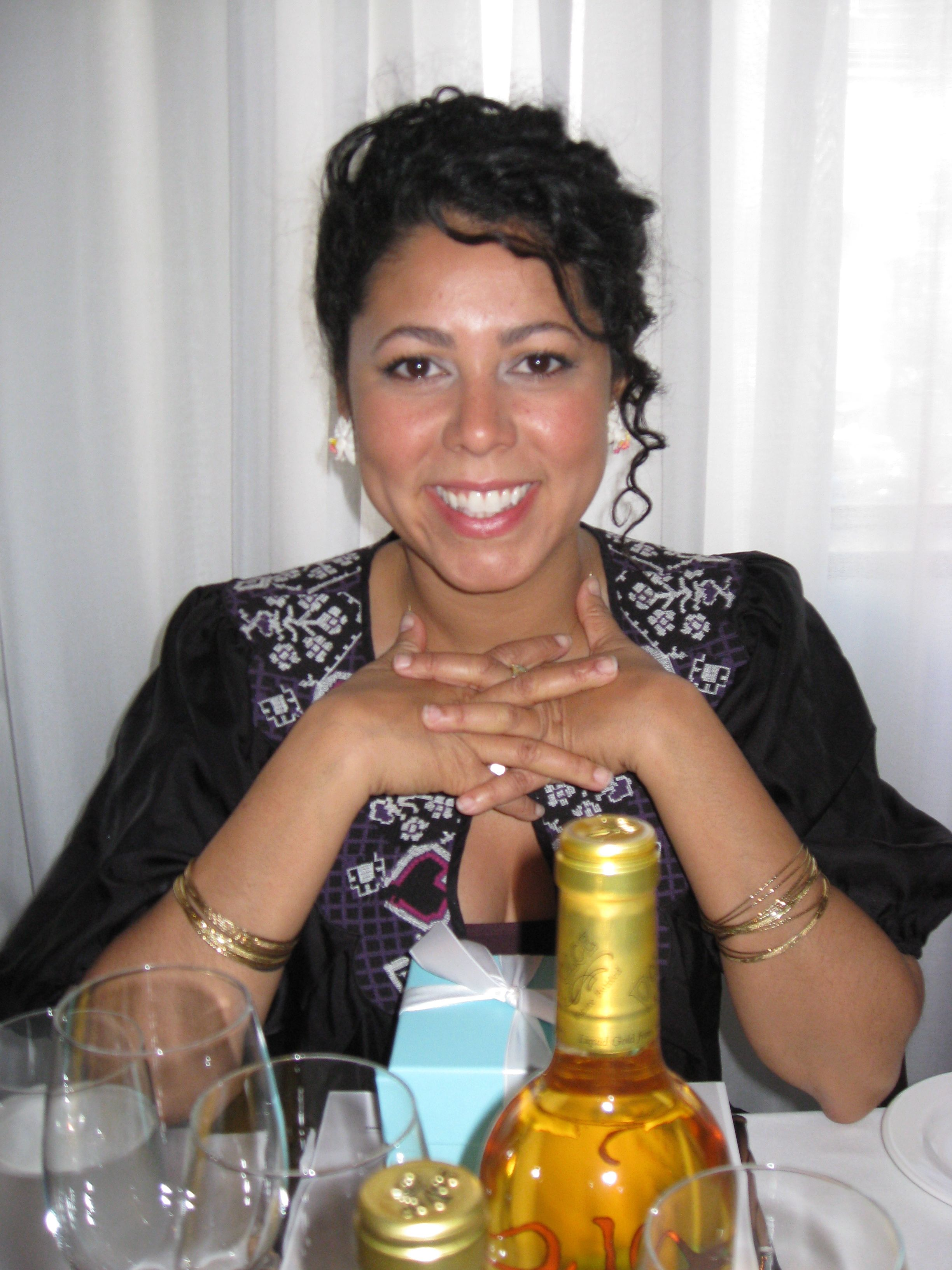 Evette Ríos at South Beach Food and Wine Festival 2010